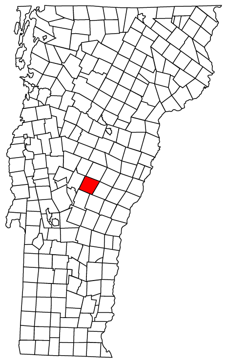 Map of Vermont towns with Bethel highlighted